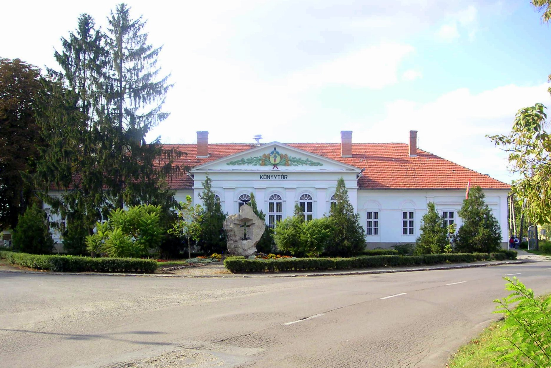 Library, Jászapati, Hungary Author: Wojsyl